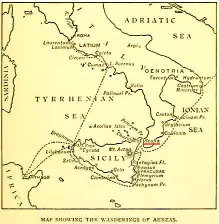 A map of the wanderings of Aeneas, showing the positions of Charybdis and Scylla (underlined in red), from an edition of The Aeneid of Virgil, Book III, edited by Philip Sandford, London: Blackie & Son. 1900